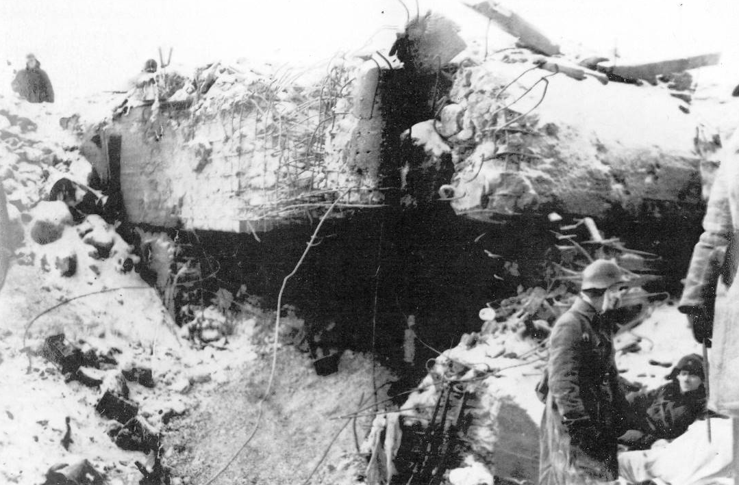 The Finnish bunker DOT (The Russian name for a concreted bunker) number 42 after destroyed by the Red Army in the Mannerheim Line.